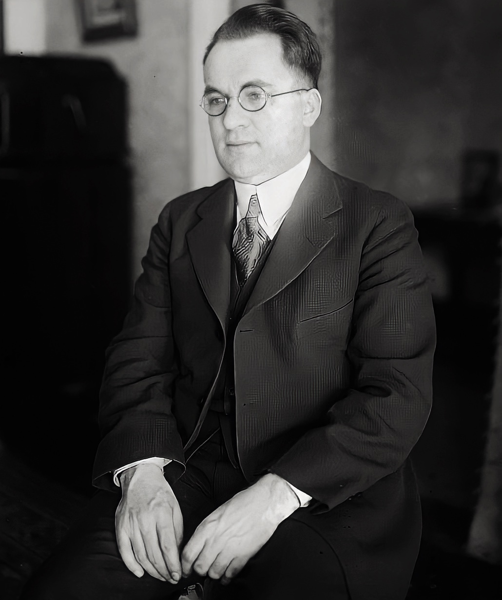 Kostë Çekrezi portrait